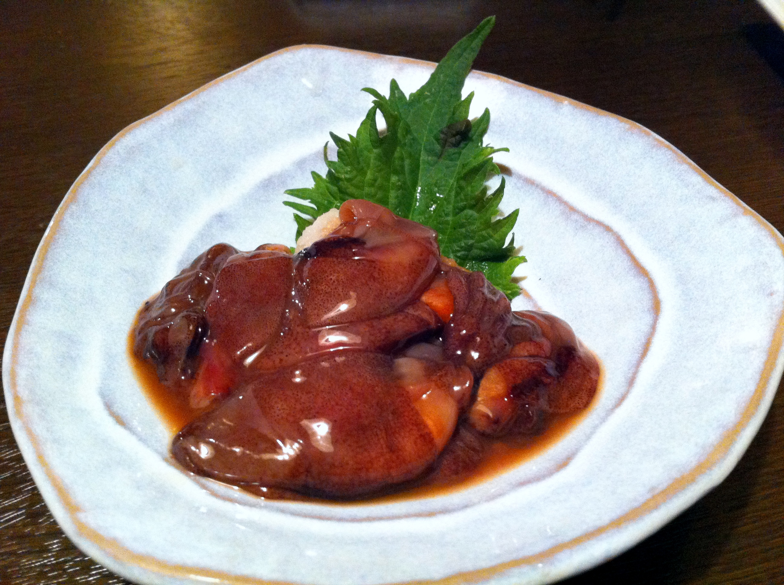 Okiduke of the squid (soy-marinated squid).